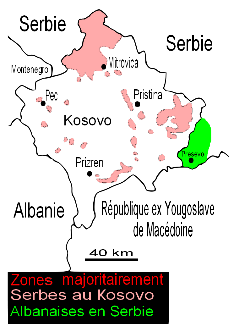 Map of regions with Serbian majority in Kosovo, and with ethnic Albanian majority in Serbia